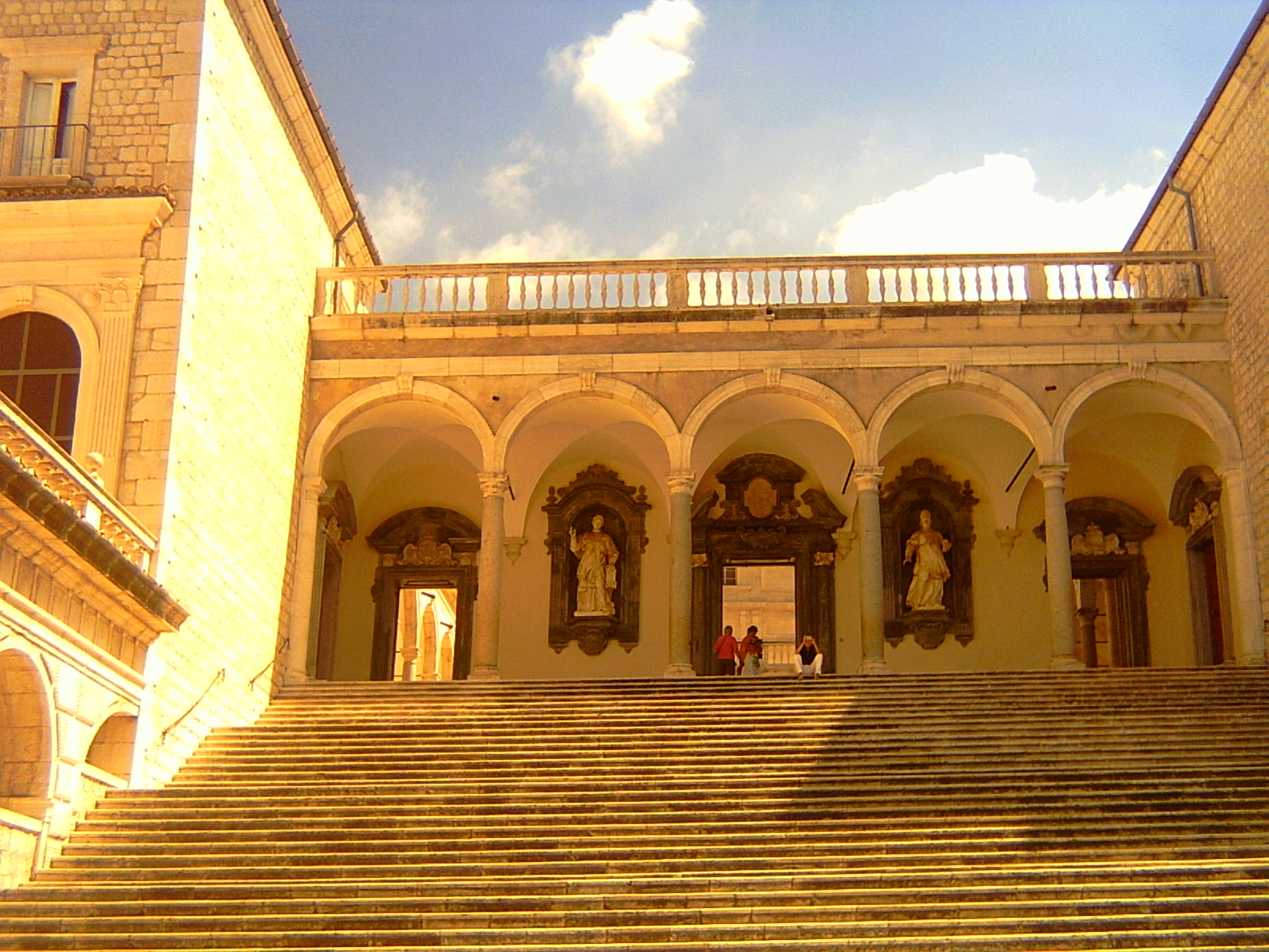 Main steps in Monte Cassino Abbey, Italy